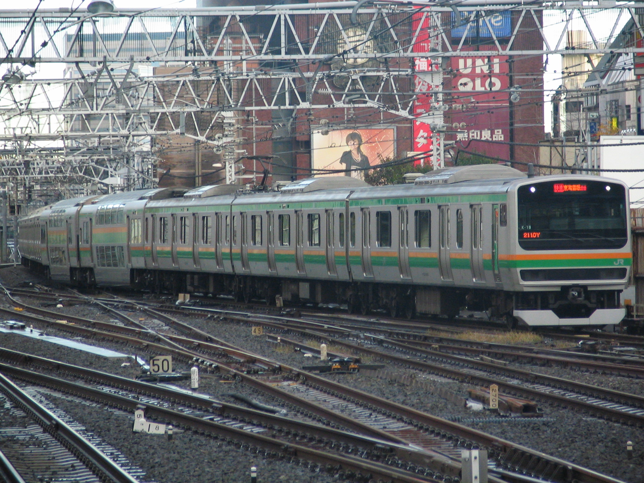 JR East E231 series serving Shonan-Shinjuku line (Taken at Shinjuku station)